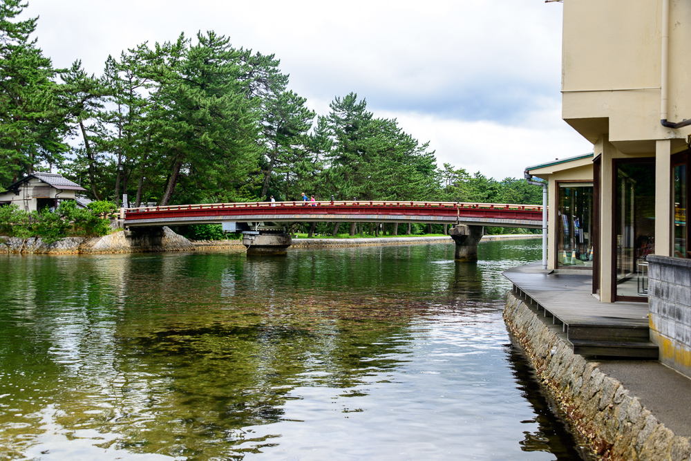 The bridge leading to a long, narrow island at Amanohashidate